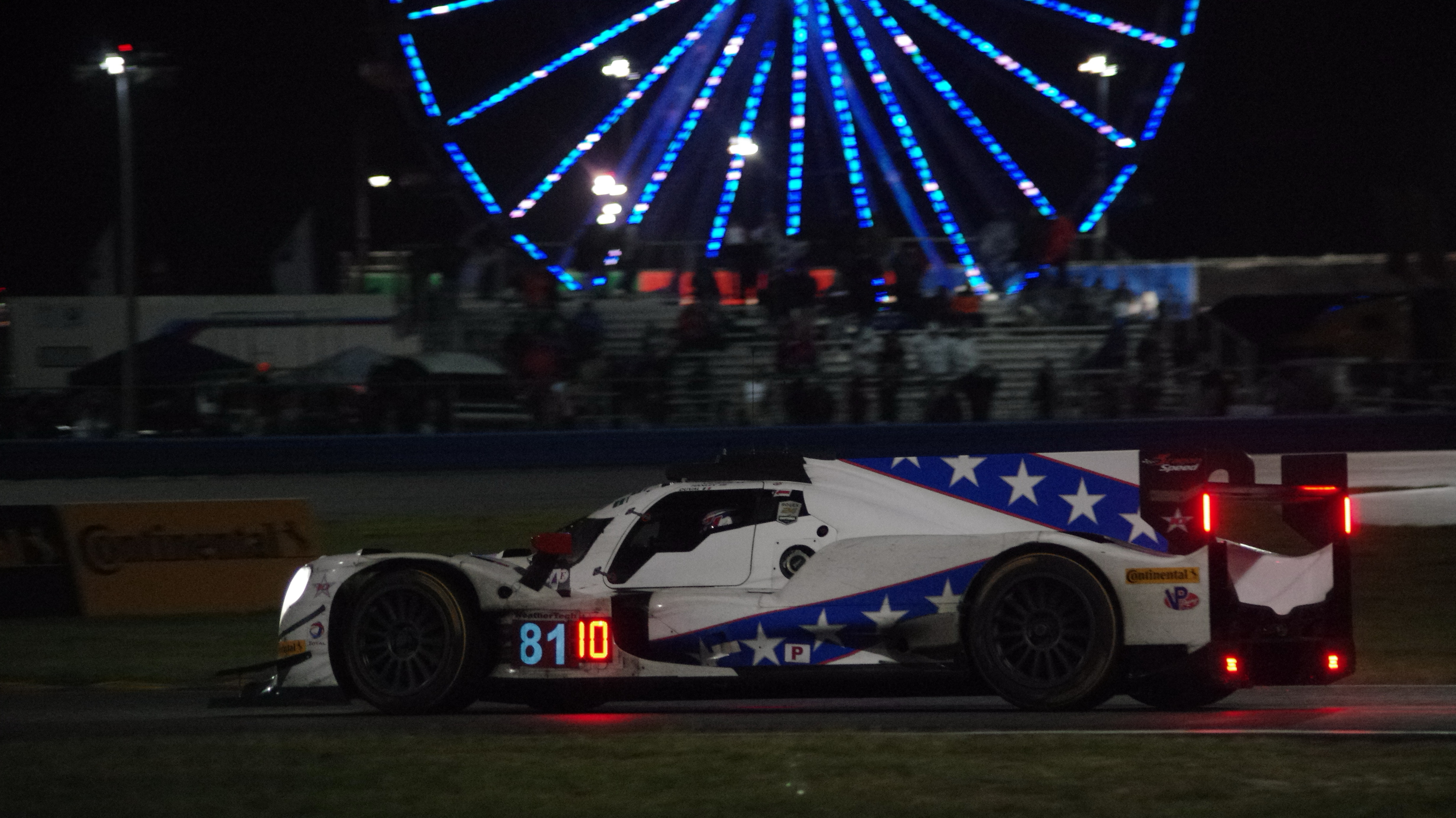 DragonSpeed's Oreca 07 n°81 at the 2017 Daytona 24 Hours driven by Henrik Hedman, Nicolas Lapierre, Ben Hanley & Loïc Duval